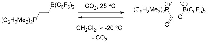 Carbon dioxide capture by Frustrated Lewis pair drawn in chemdraw